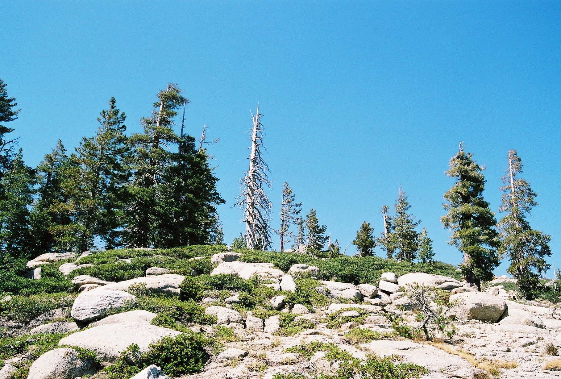 Rocky, south-facing slope in subalpine woodland, Sierra Nevada, California, USA